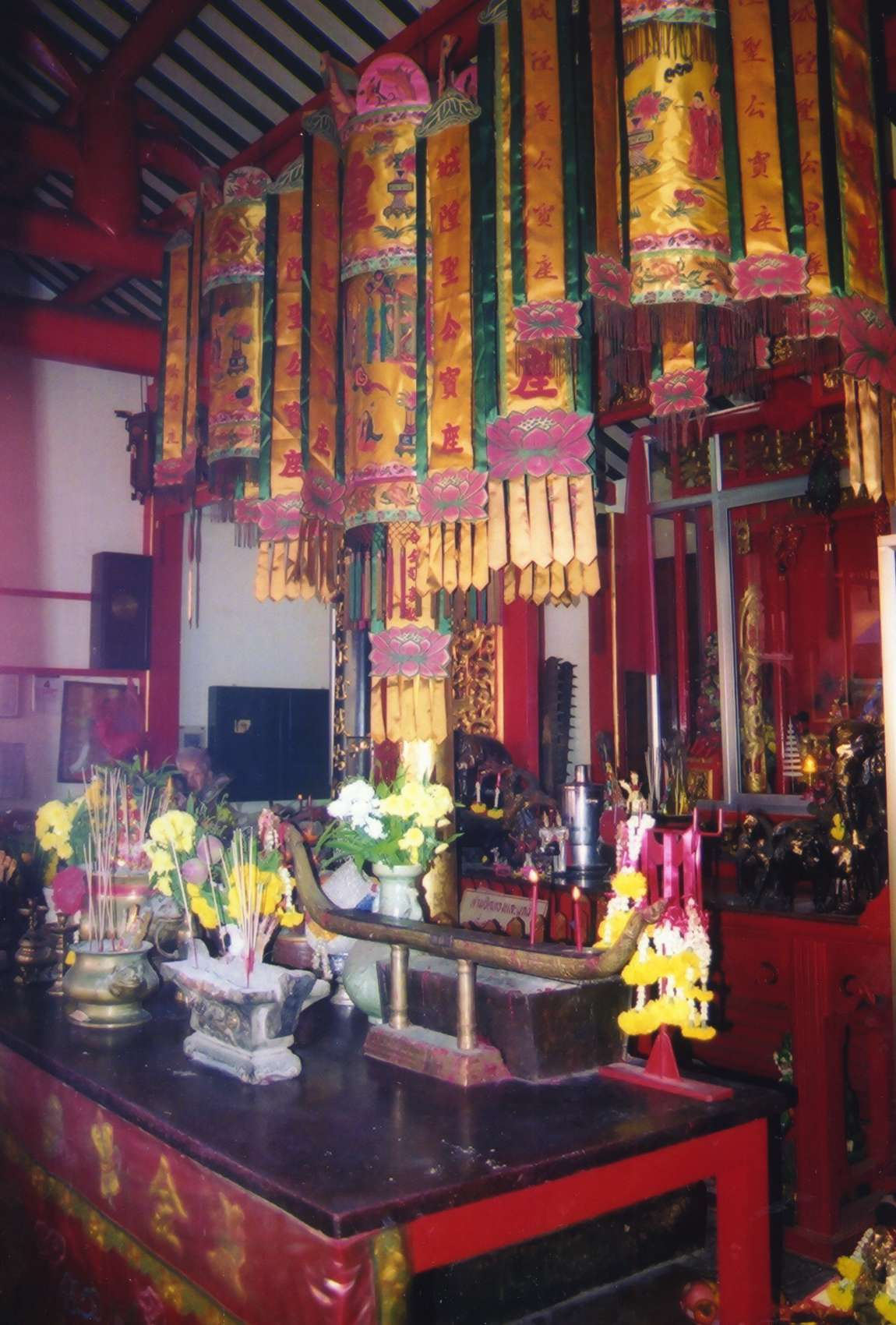 Inside the city pillar shrine of Songkhla, southern Thailand. The shrine resembles a Chinese temple, as in the past Chinese settlers formed the majority of the town people. Photo taken by User:Ahoerstemeier on January 23 2005.